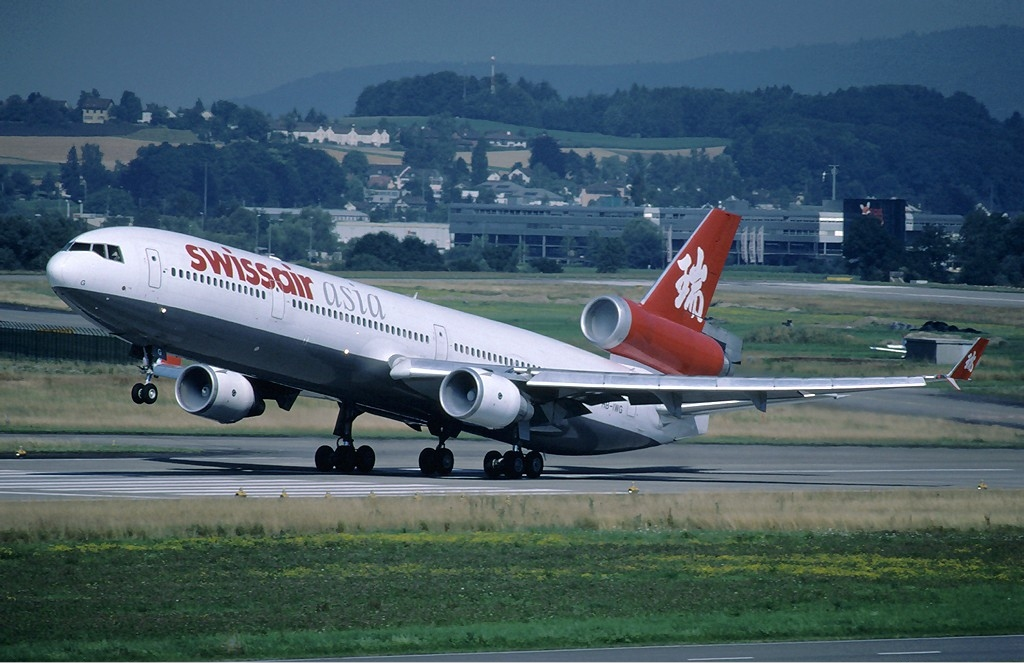 Swissair Asia McDonnell Douglas MD-11